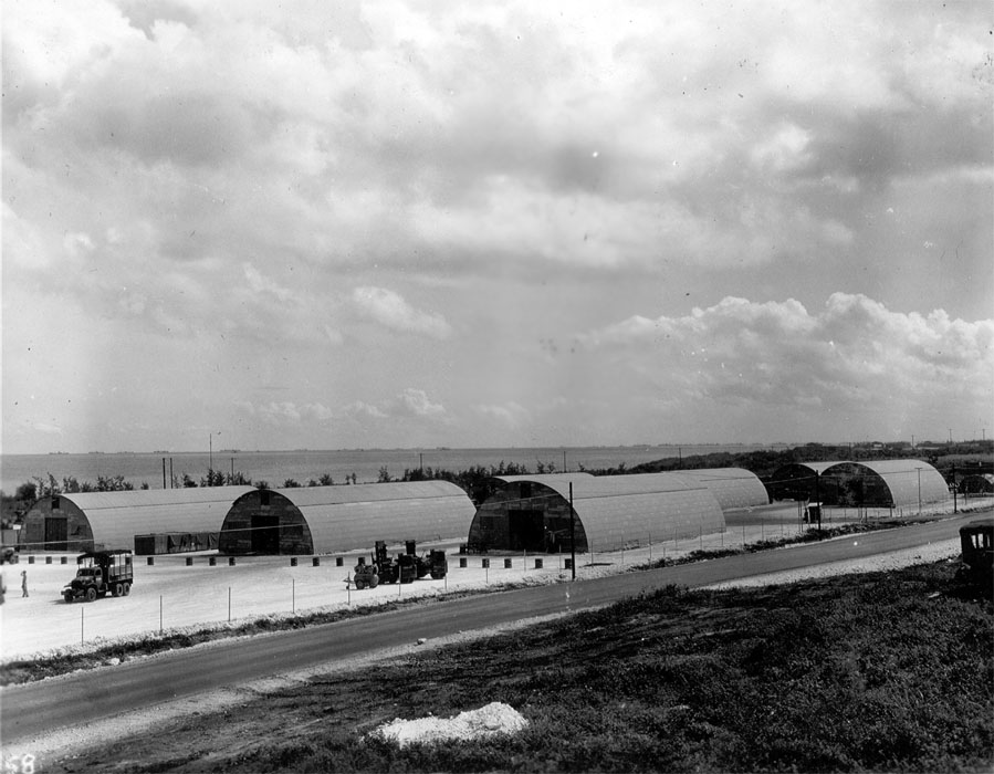 First Ordinance Squadron Area